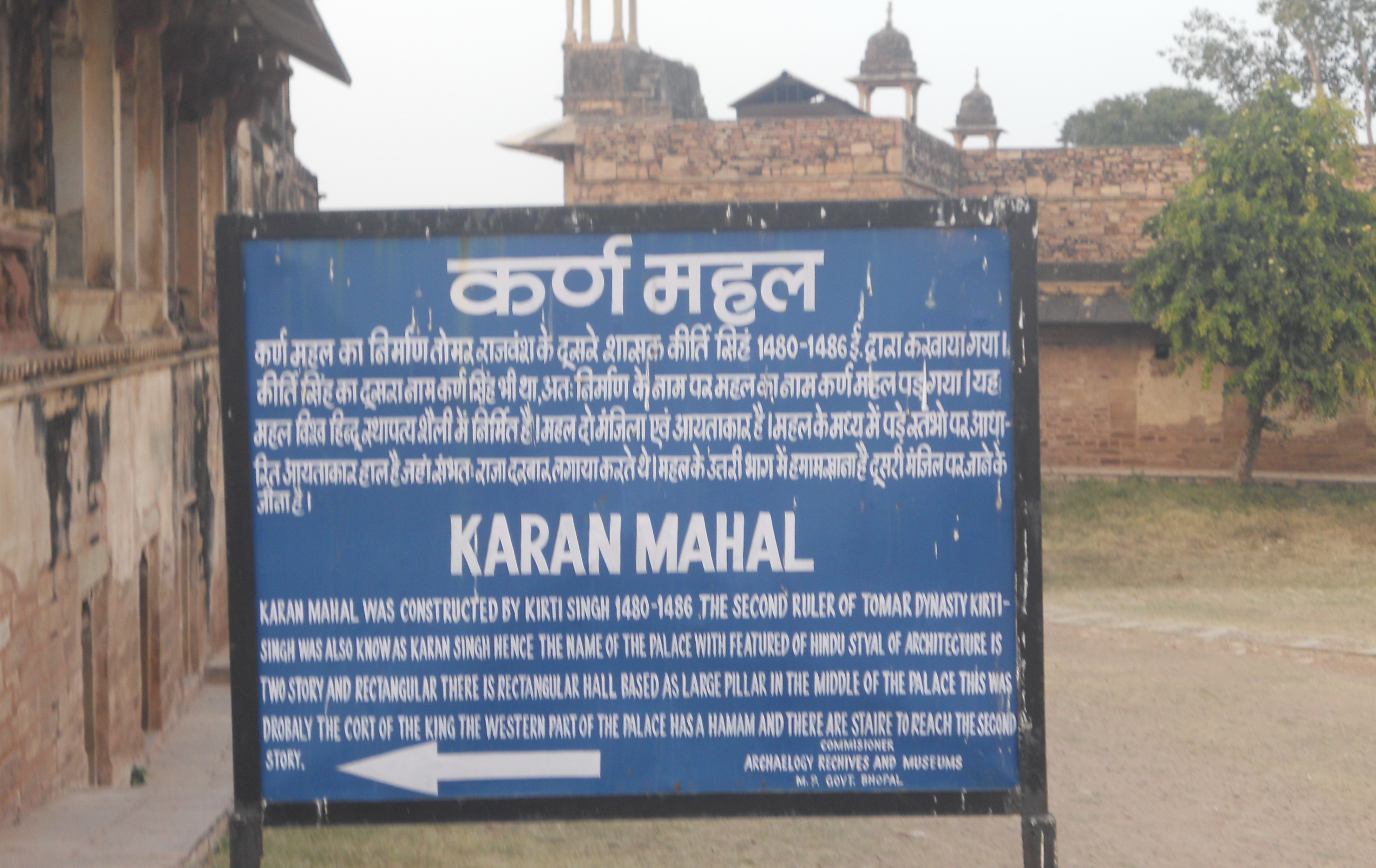 In this picture there is original description of the Karan Mahal by the archaeological survey of India